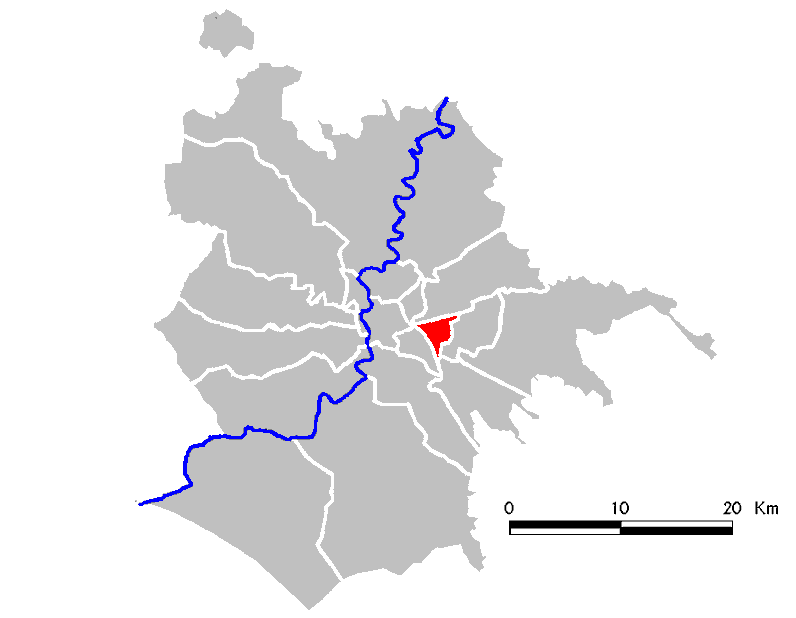 Locator maps of Rome